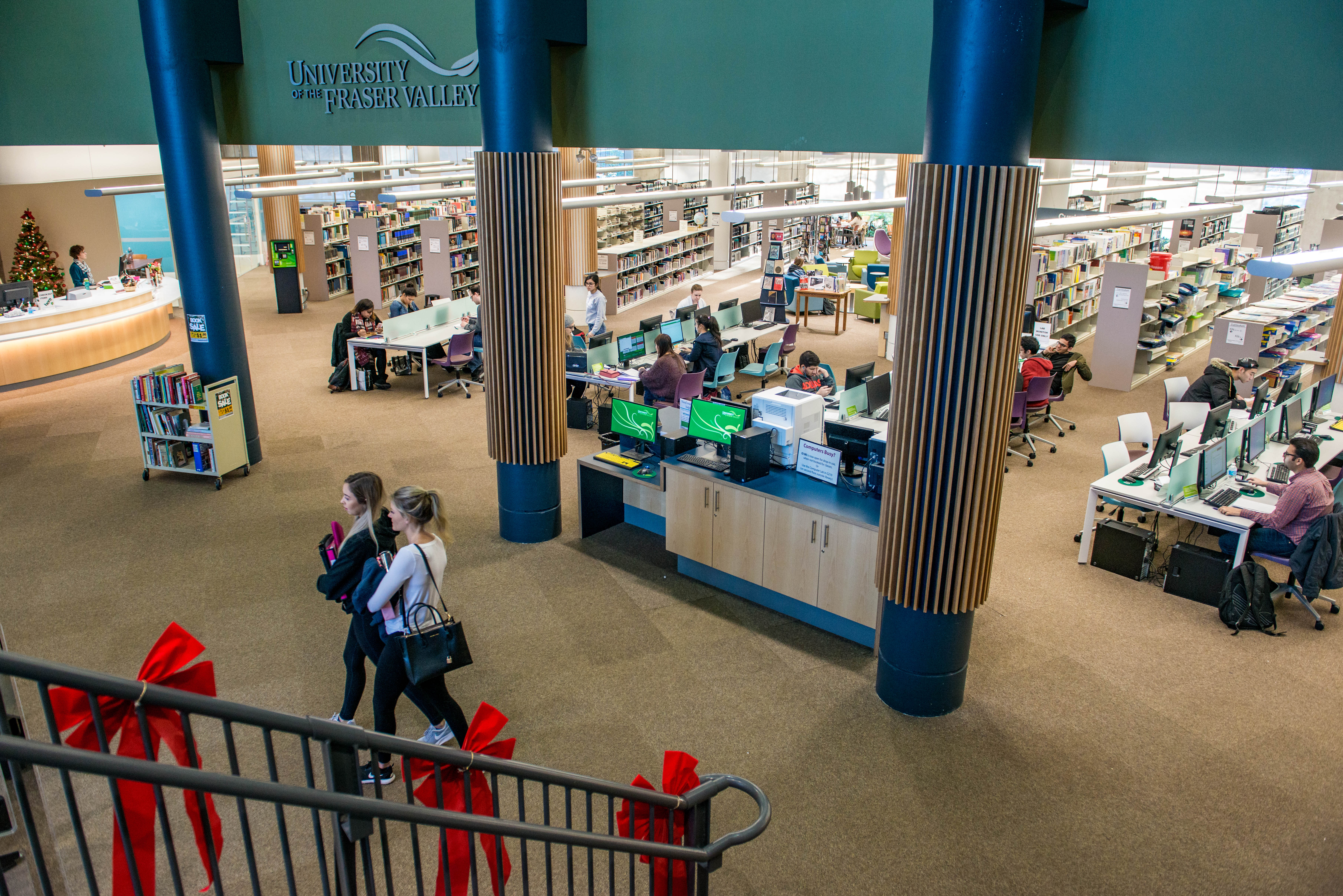 Library-2